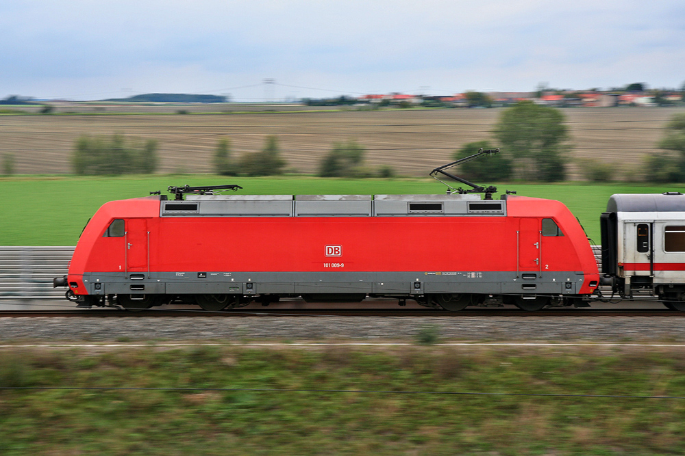 A DB class 101 pulls an Intercity train, near Halle (Saale)